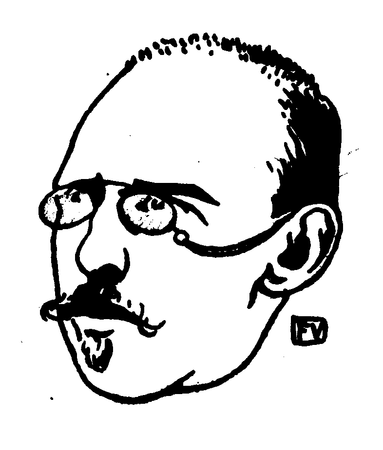 Portrait of Belgian writer George Eekhoud (1854-1927) from "Le Livre des masques" (vol. I, 1896) by Remy de Gourmont (1858-1916)